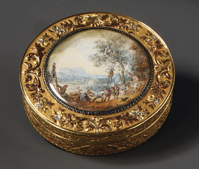 Russian, Saint Petersburg; Snuffbox, painting; Metalwork-Gold and Platinum